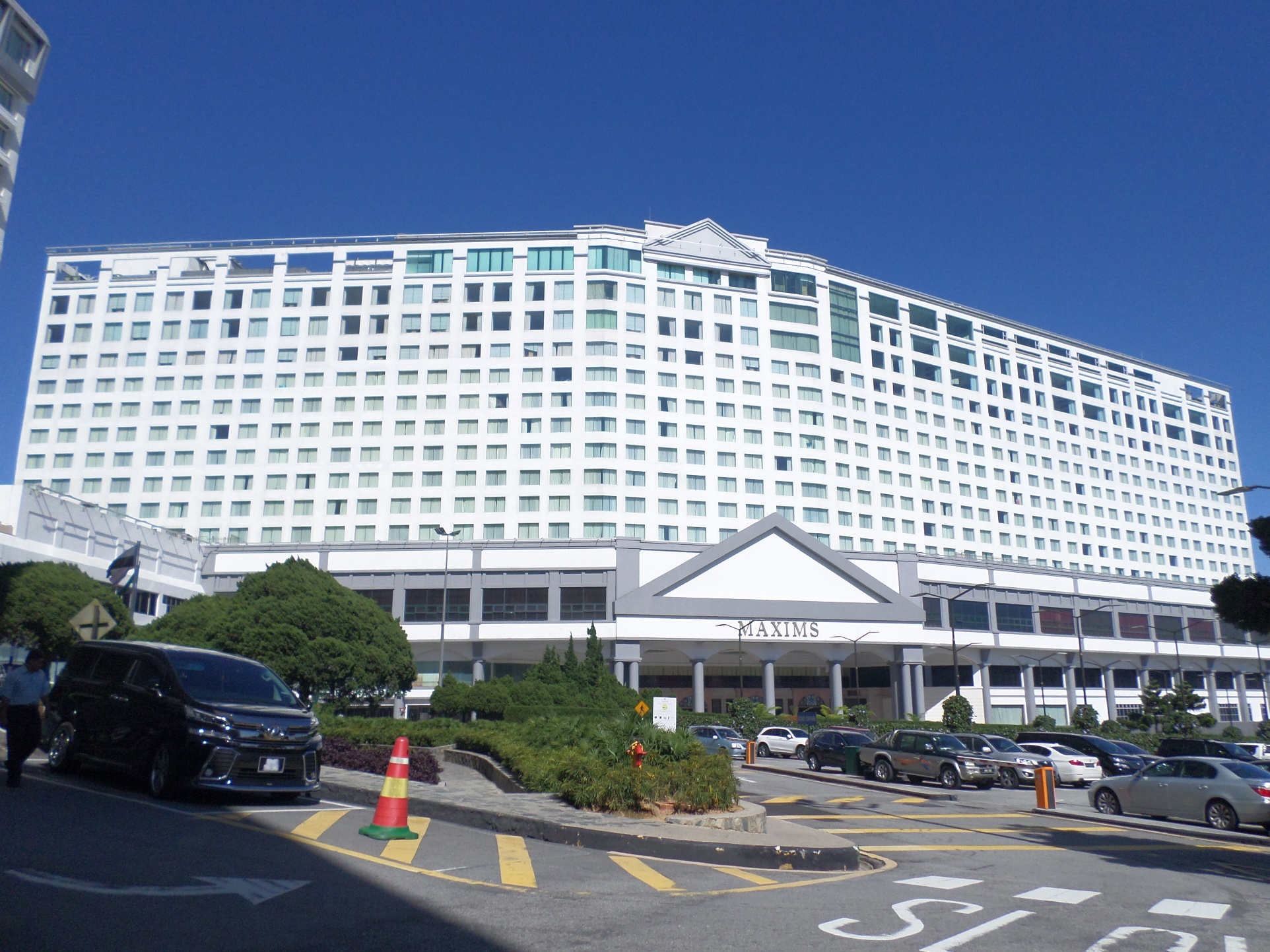 Maxims Hotel, Genting Highlands, Hulu Selangor, Selangor, Malaysia